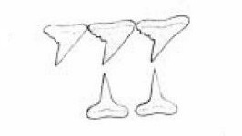 Teeth of the Pondicherry shark (Carcharhinus hemiodon)